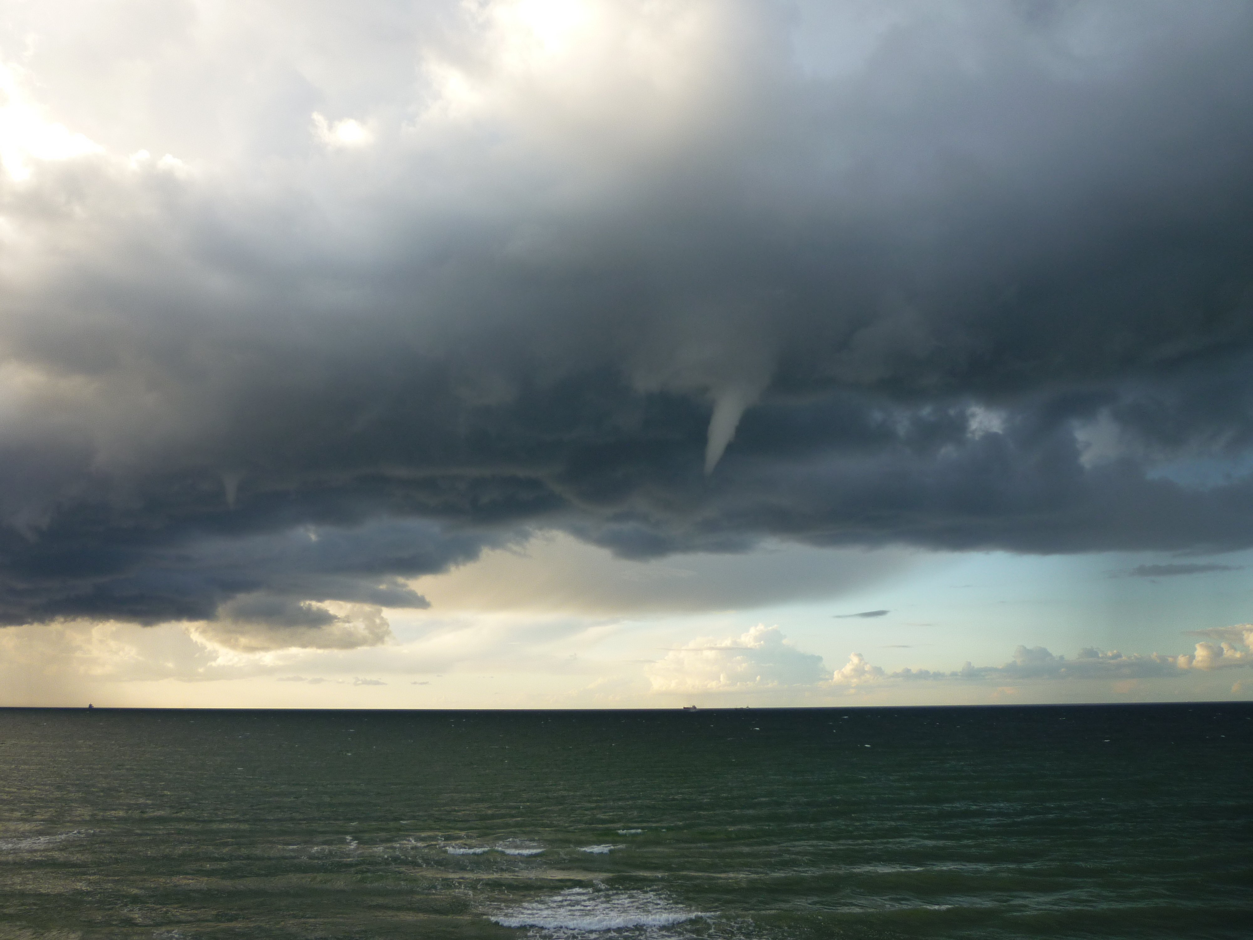 funnel